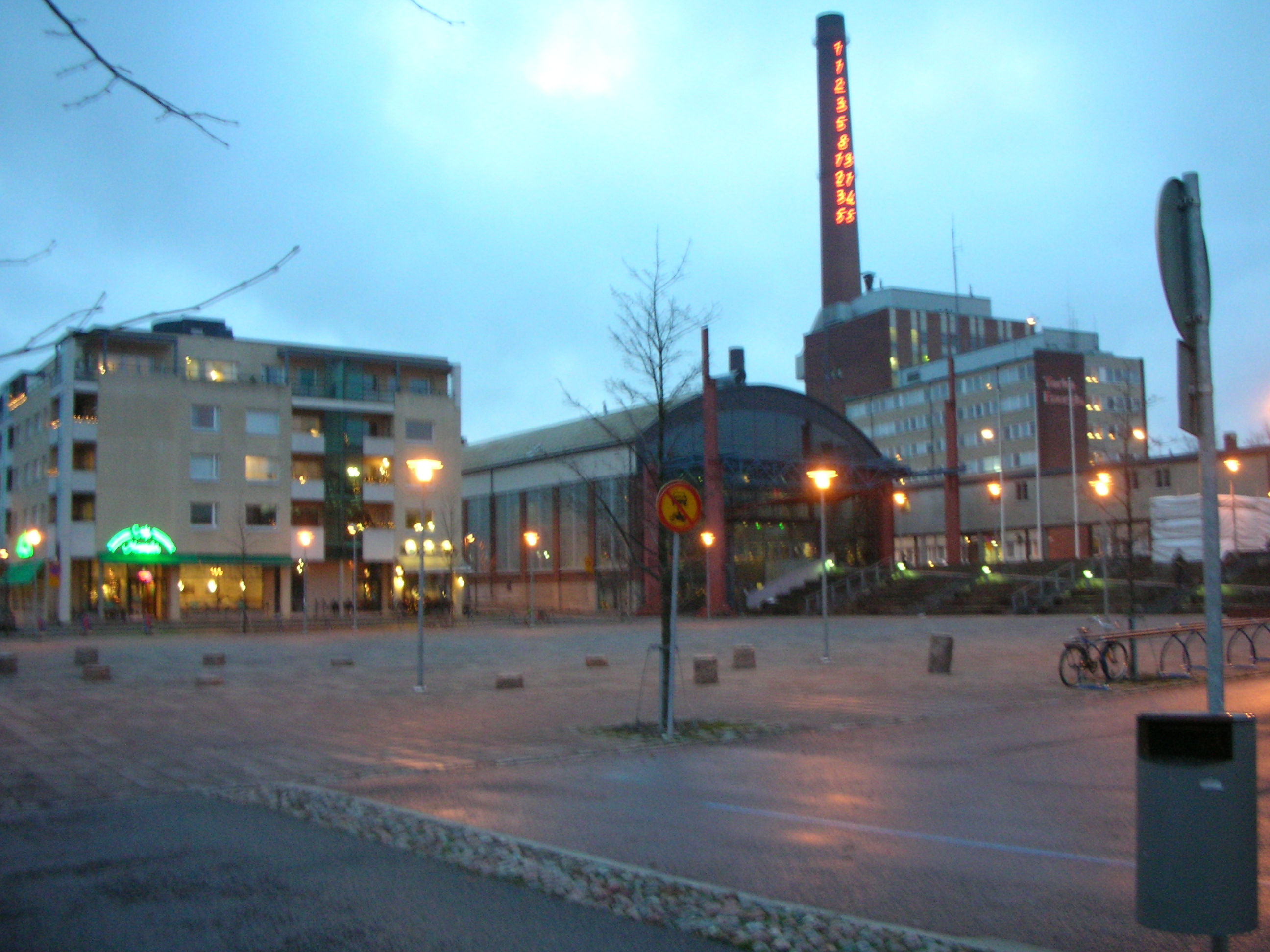 Varvintori in Turku, Finland